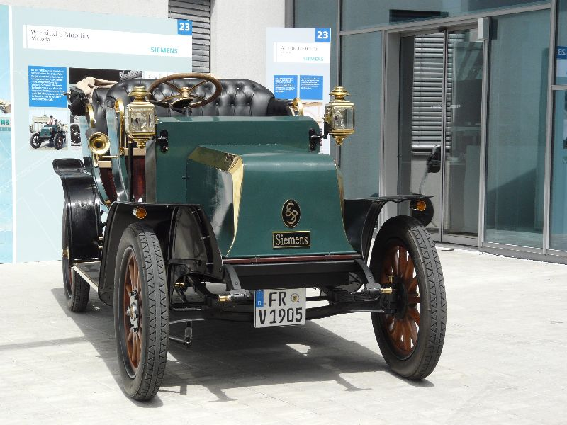 Replica of the Siemens-Schuckert electric car of 1905 "Electric Victoria" Model B. Finished in April 2010. Picture taken at the opening day of the Siemens-City in Vienna, 2010-06-11.